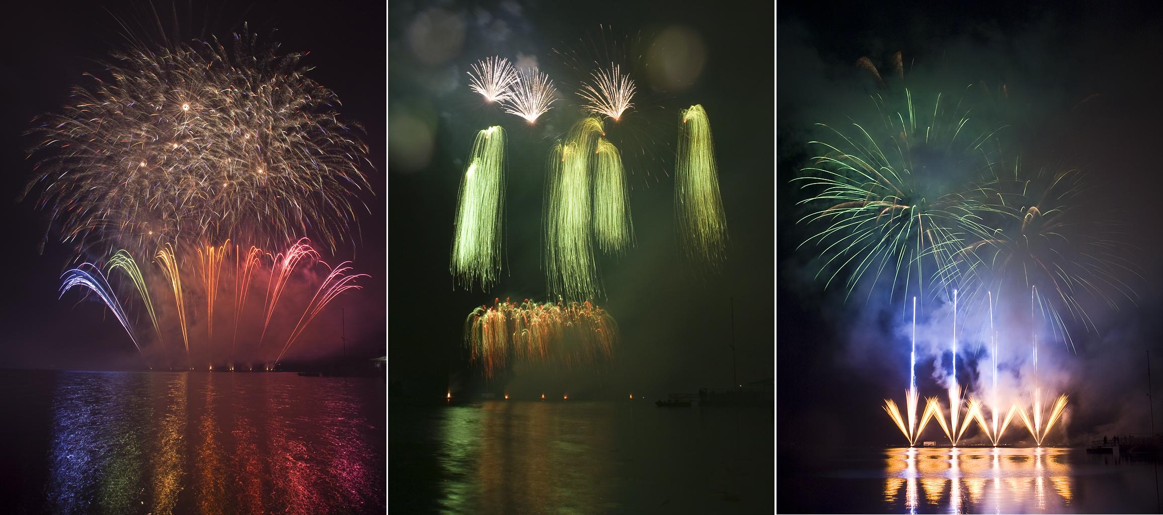 Photographical montage of Ignis Brunensis 2010